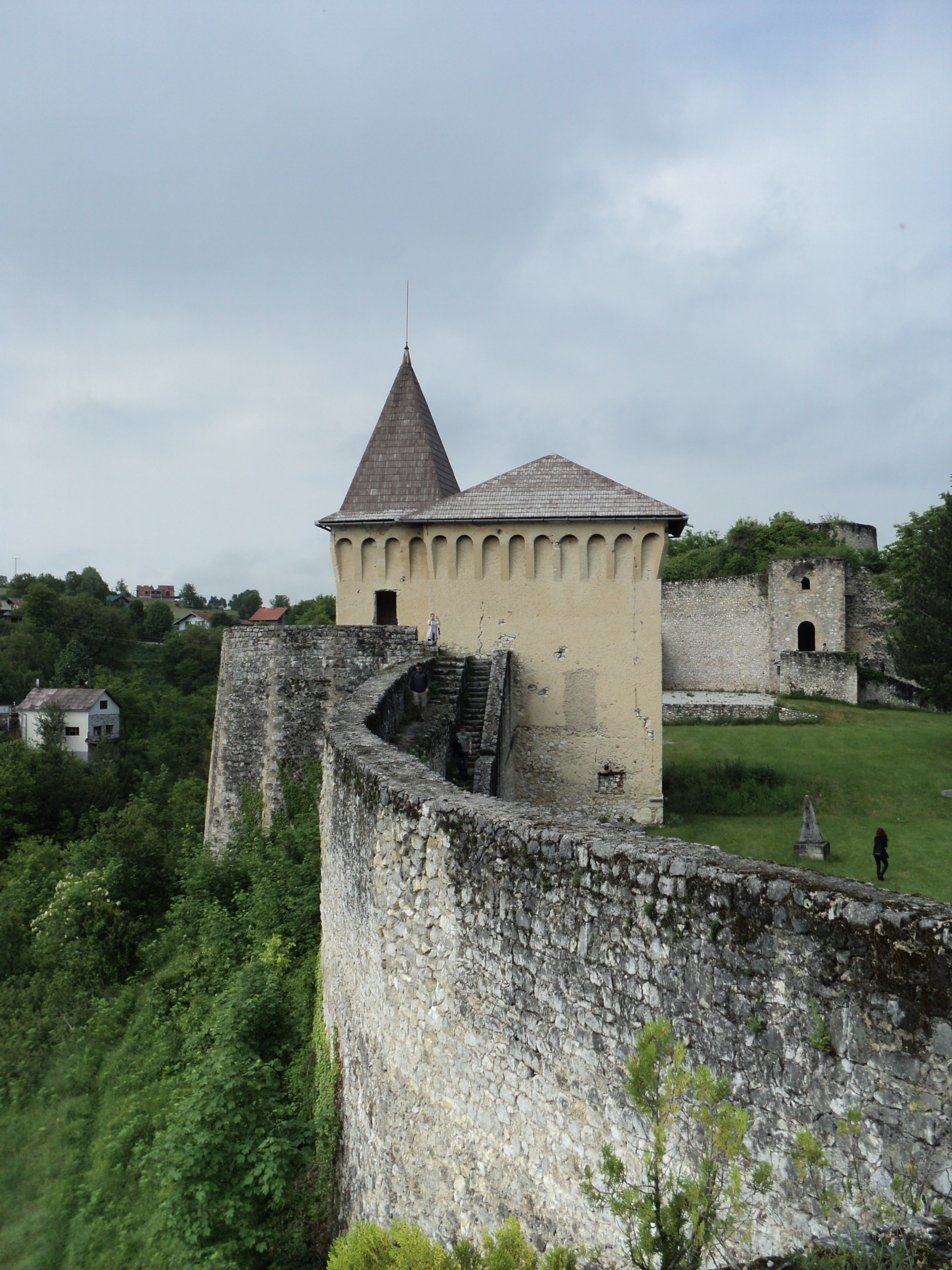 Ostrožac castle near Cazin.